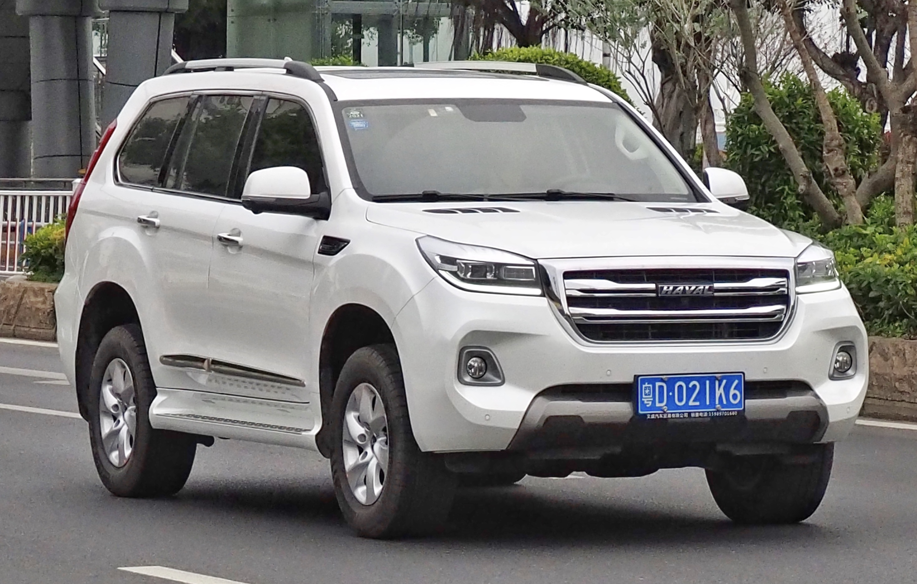 A 2019 Haval H9 photograohed in Shantou, Guangdong Province, China. 中文（中国大陆）: 一辆2019年的哈弗H9，拍摄于中国广东省汕头市。